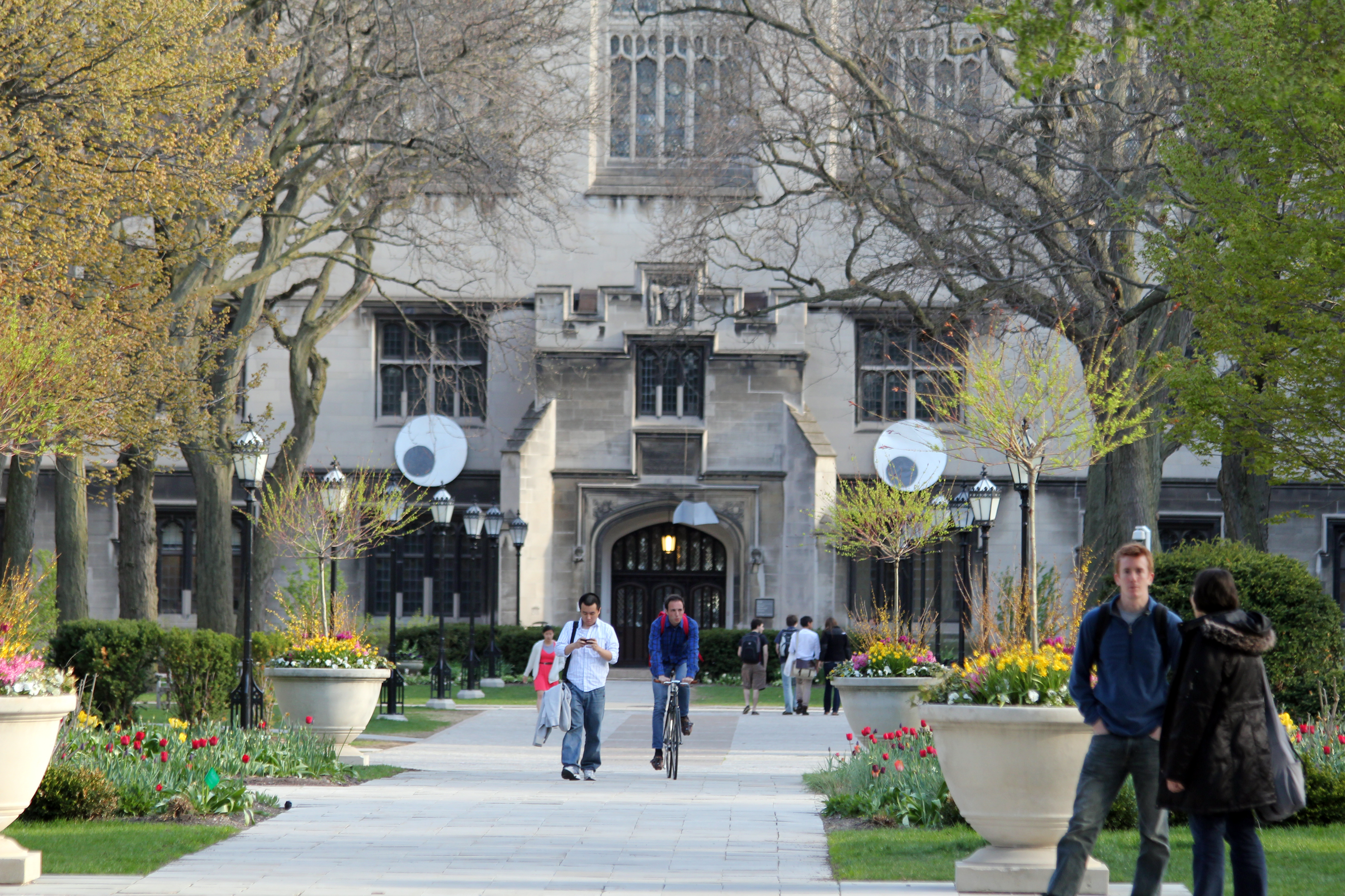 The University of Chicago is watching you